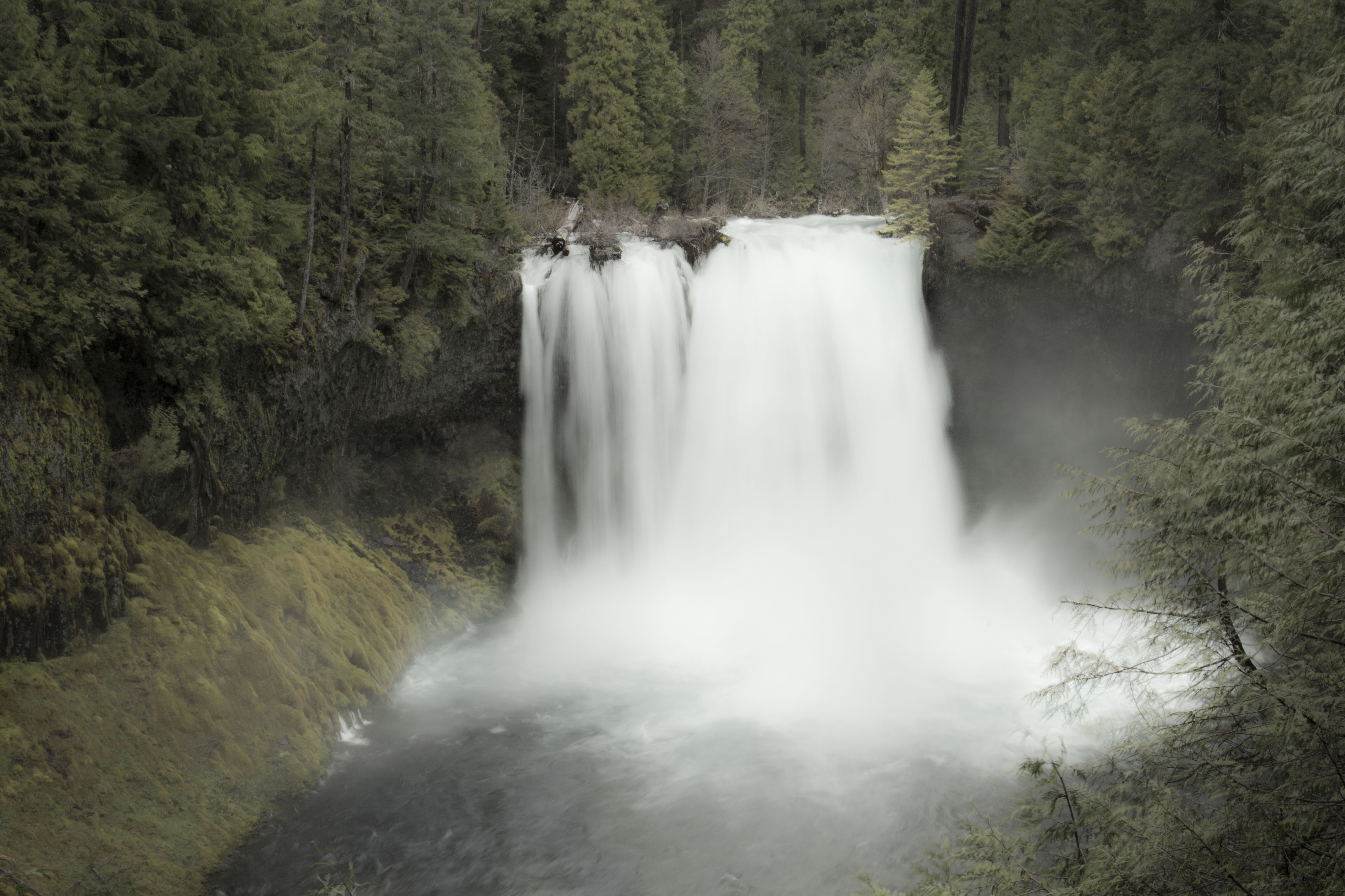 Koosah Falls in the spring with an abundance of water flowing through.